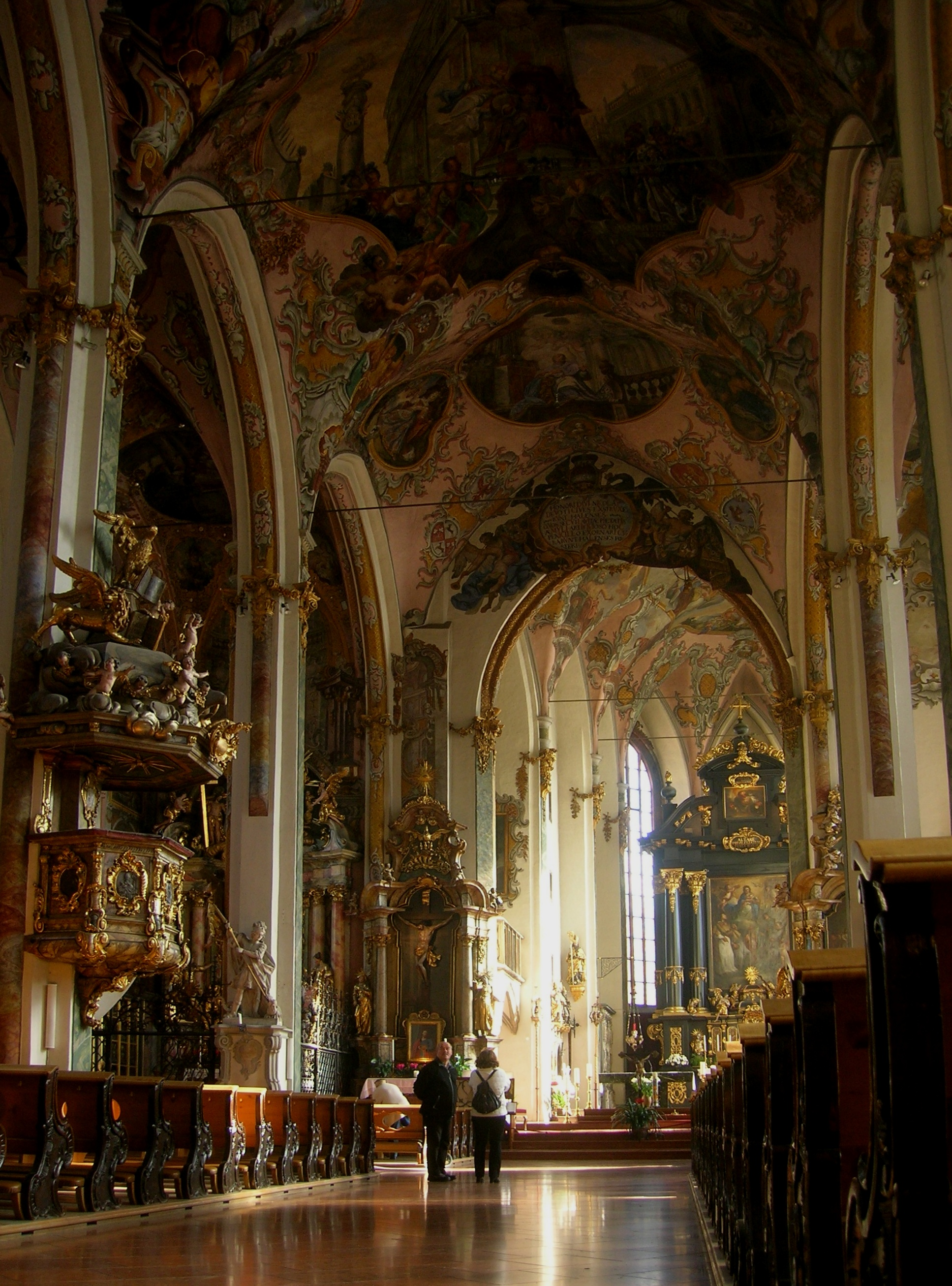 interior of the church St. Nikolaus in Hall in Tirol